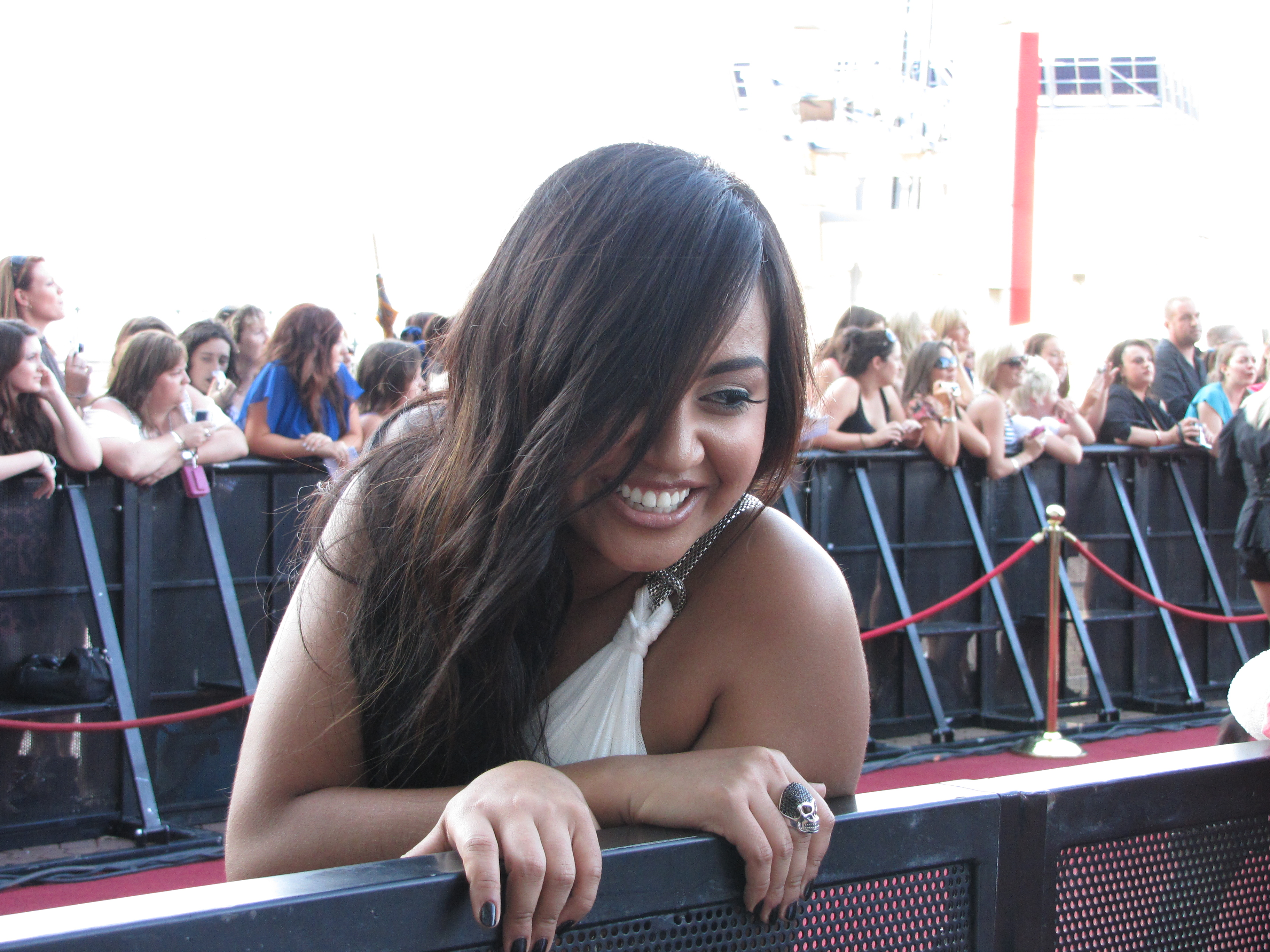 Jessica Mauboy at the 2009 AIRA awards.